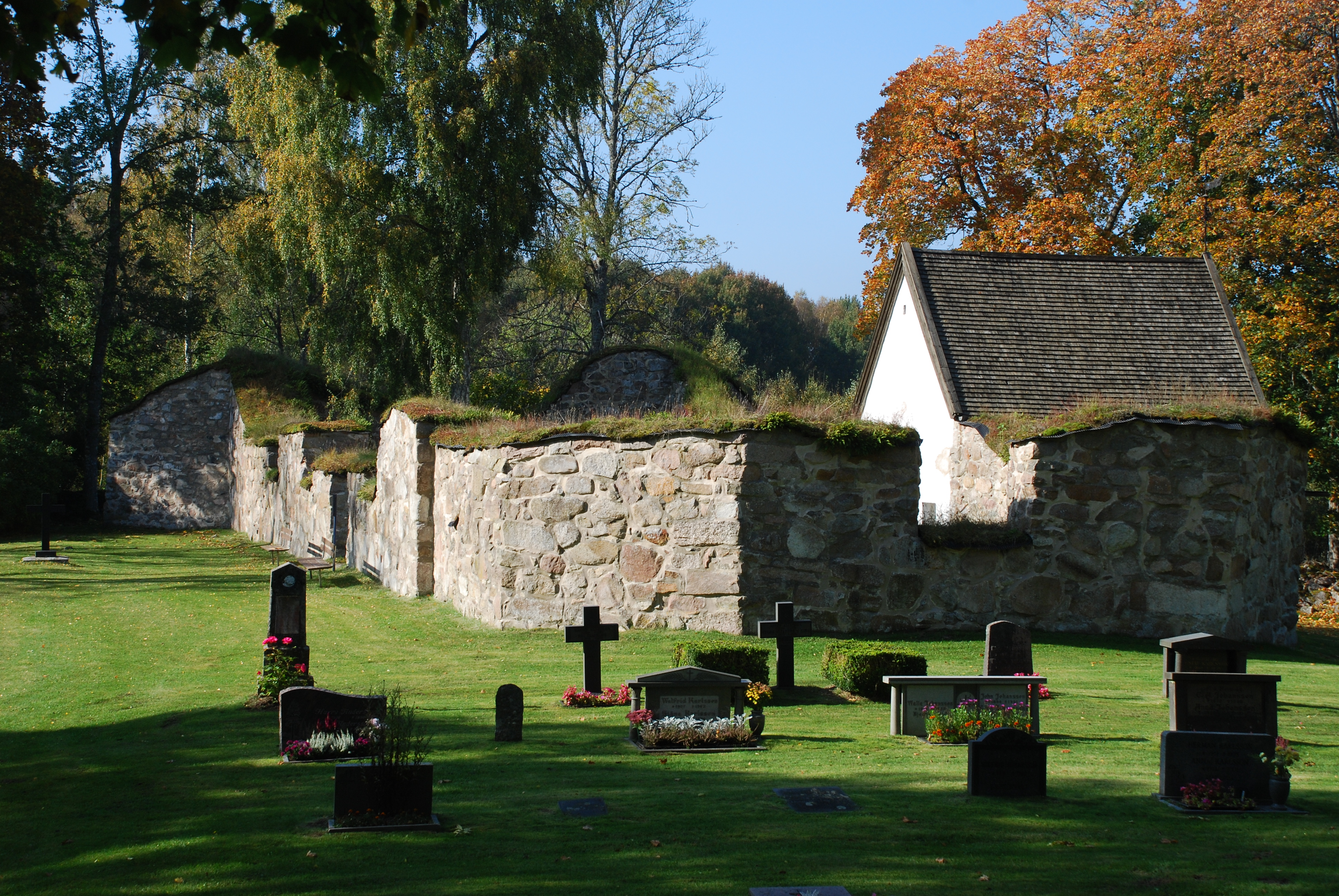 Cemetery and church ruins